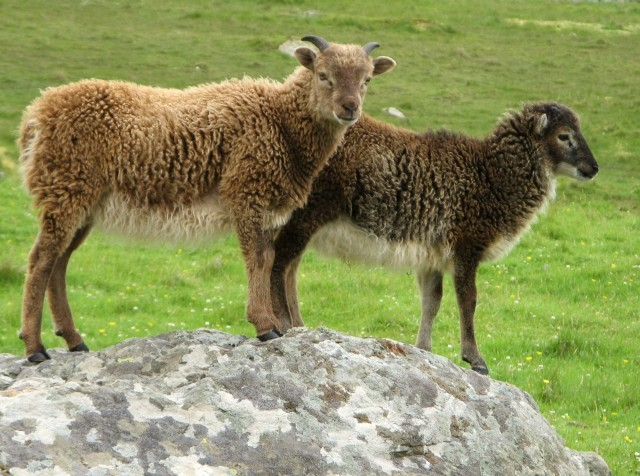 A pair of Soay lambs on Hirta.